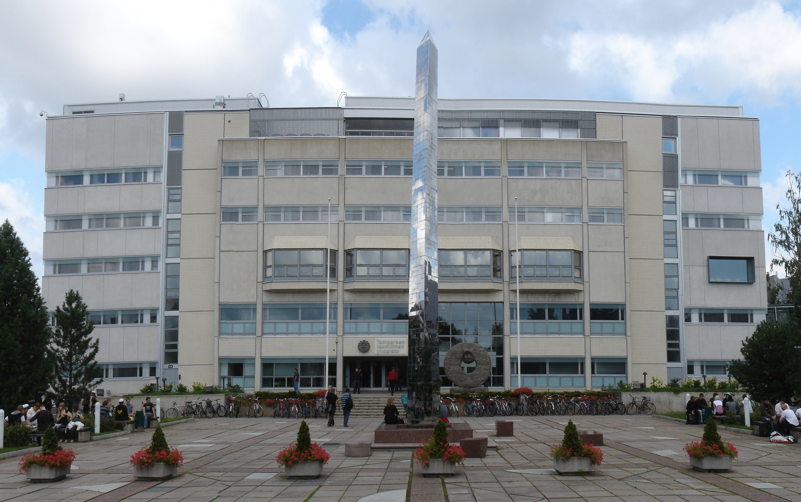 Tampere University of Technology main building in Tampere, Finland. Completed in 1983. Architect: Toivo Korhonen.